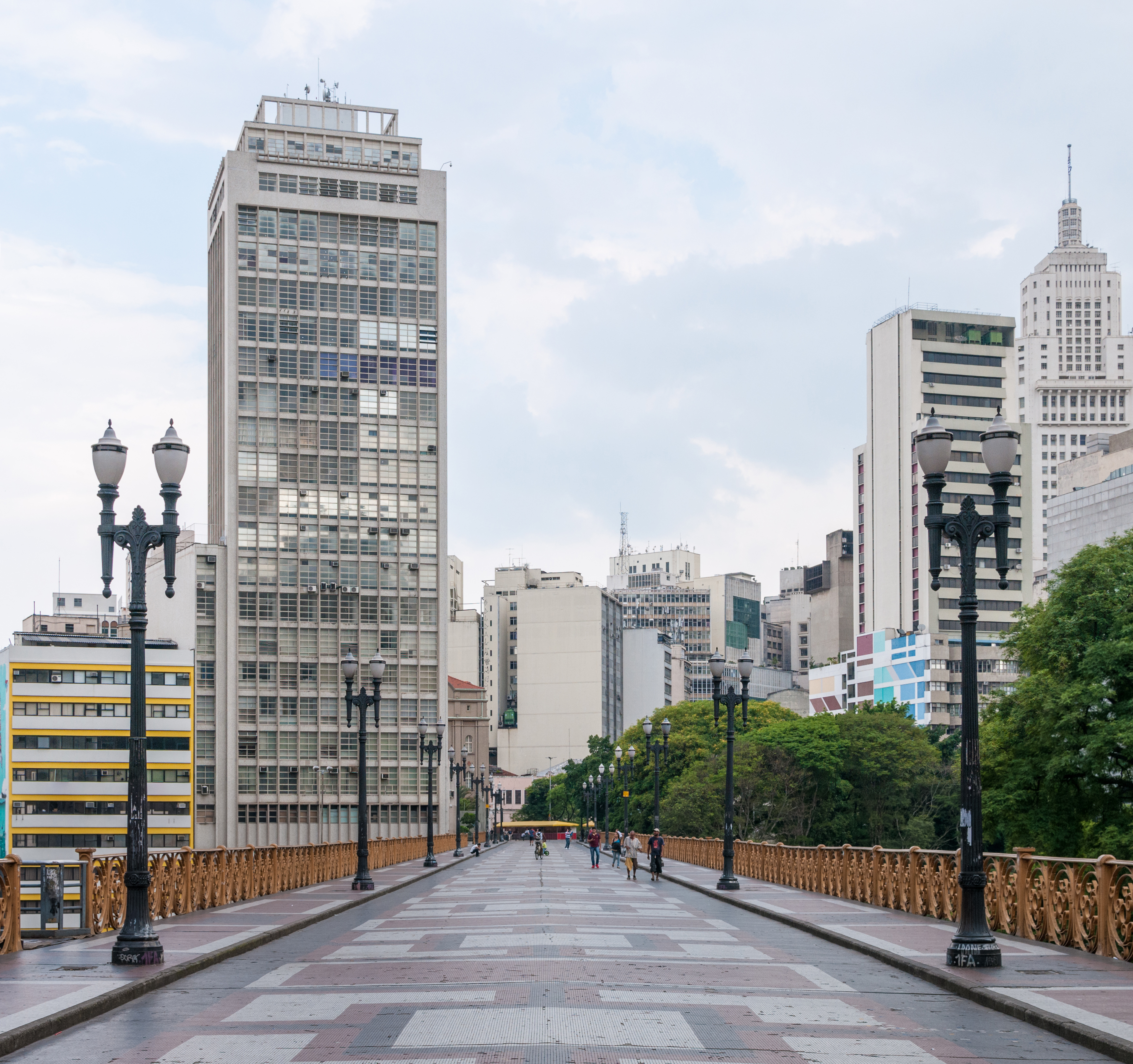 Santa Ifigenia viaduct, São Paulo, Brazil